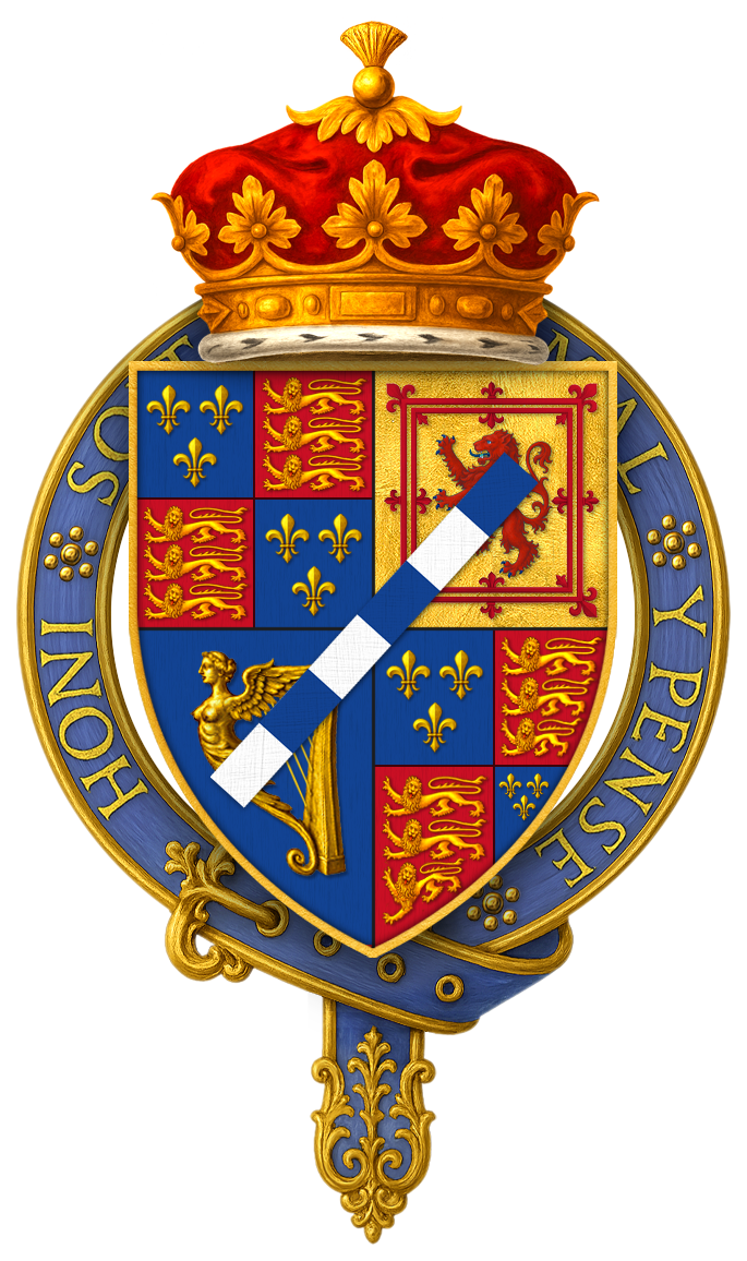 Shield of arms of Augustus FitzRoy, 7th Duke of Grafton, KG, as displayed on his Order of the Garter stall plate in St. George's Chapel.